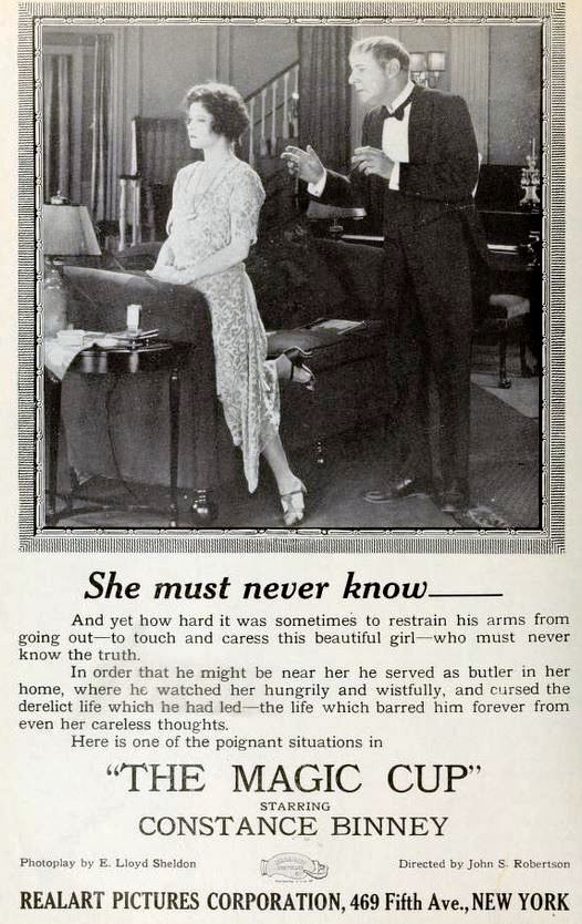 Ad for the American film The Magic Cup (1921) with Constance Binney, inside front cover to the April 10, 1921 Film Daily.